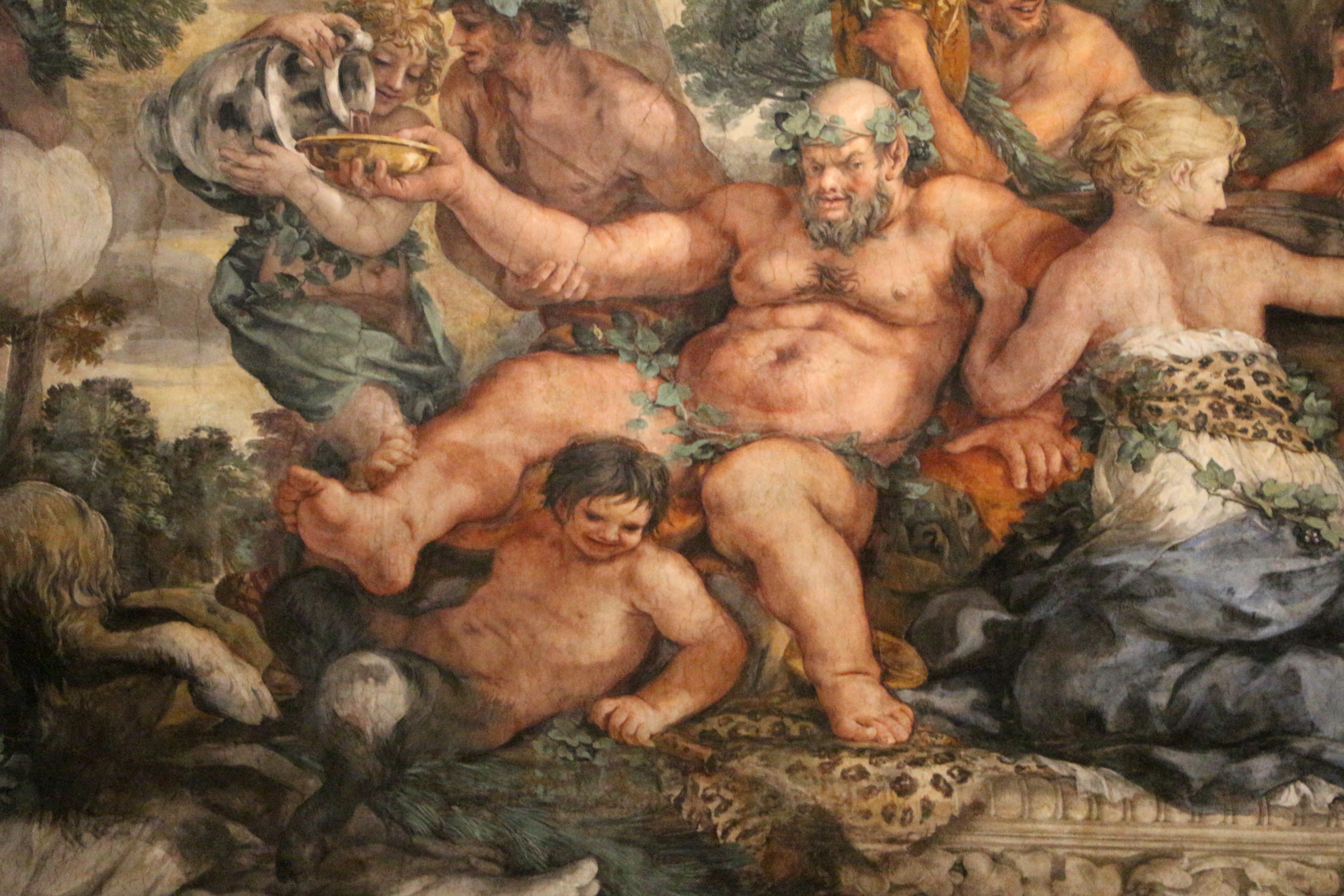 Triumph of the Divine Providence by Pietro da Cortona